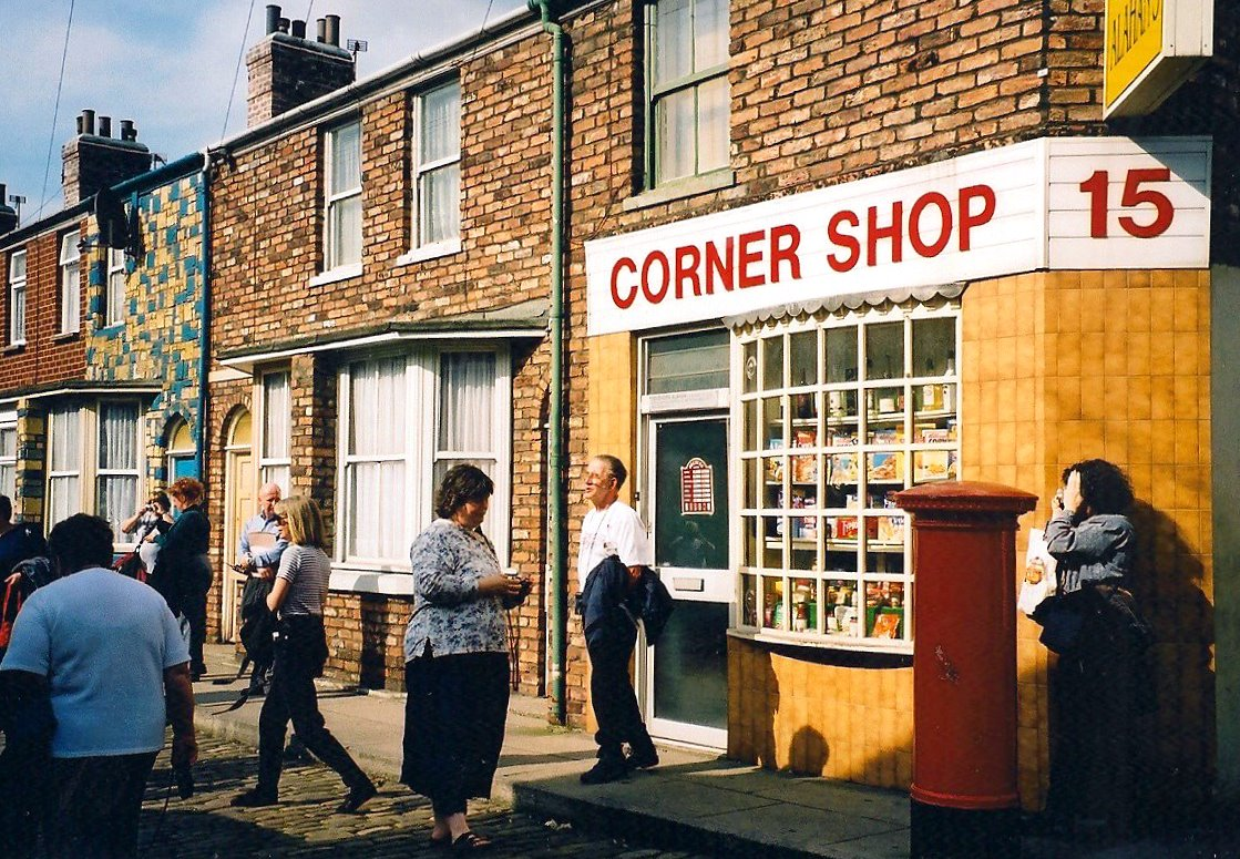 Corrie fans on the Manchester studio set, Sept. 2000